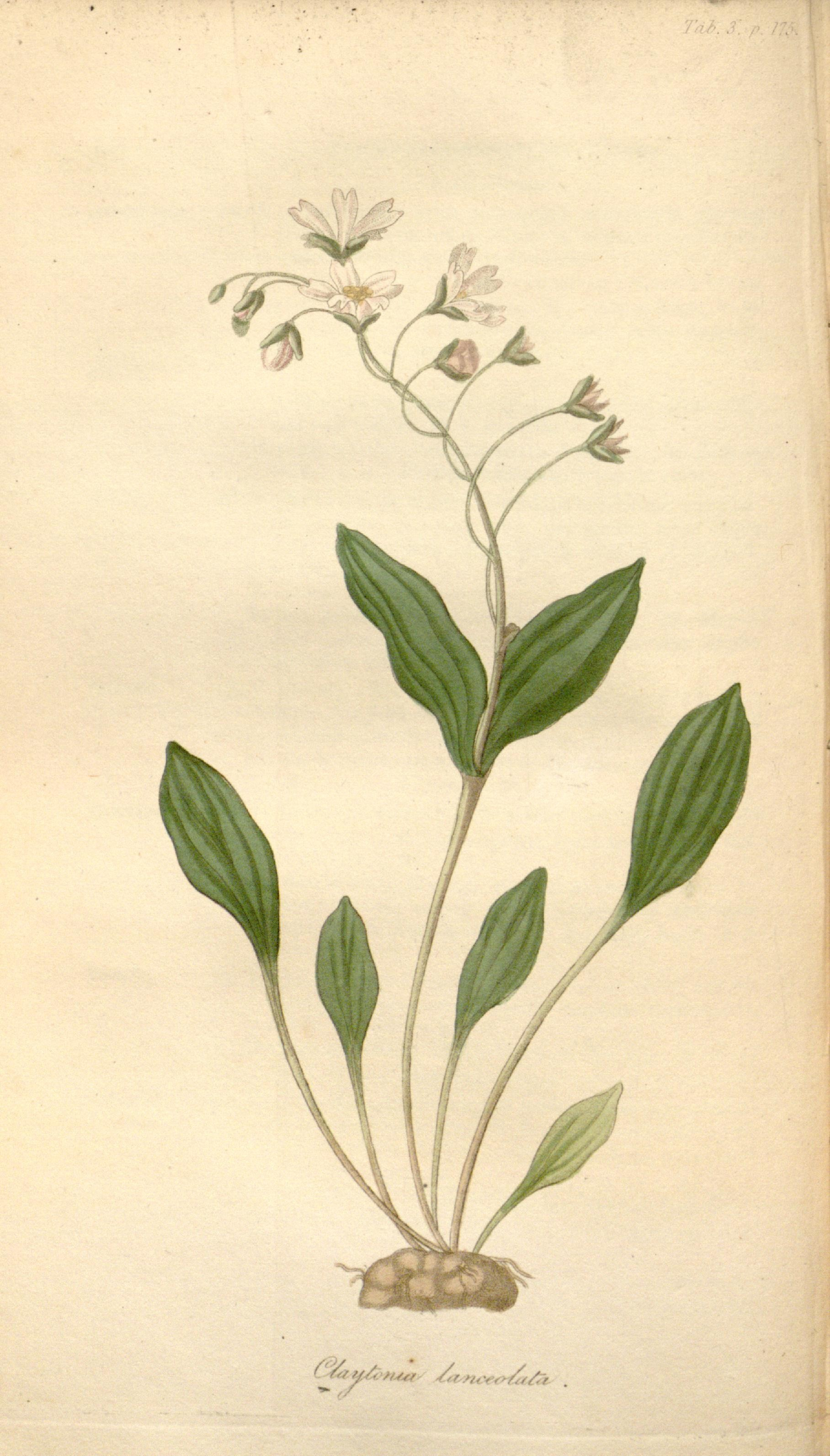 / ^ -^ F I